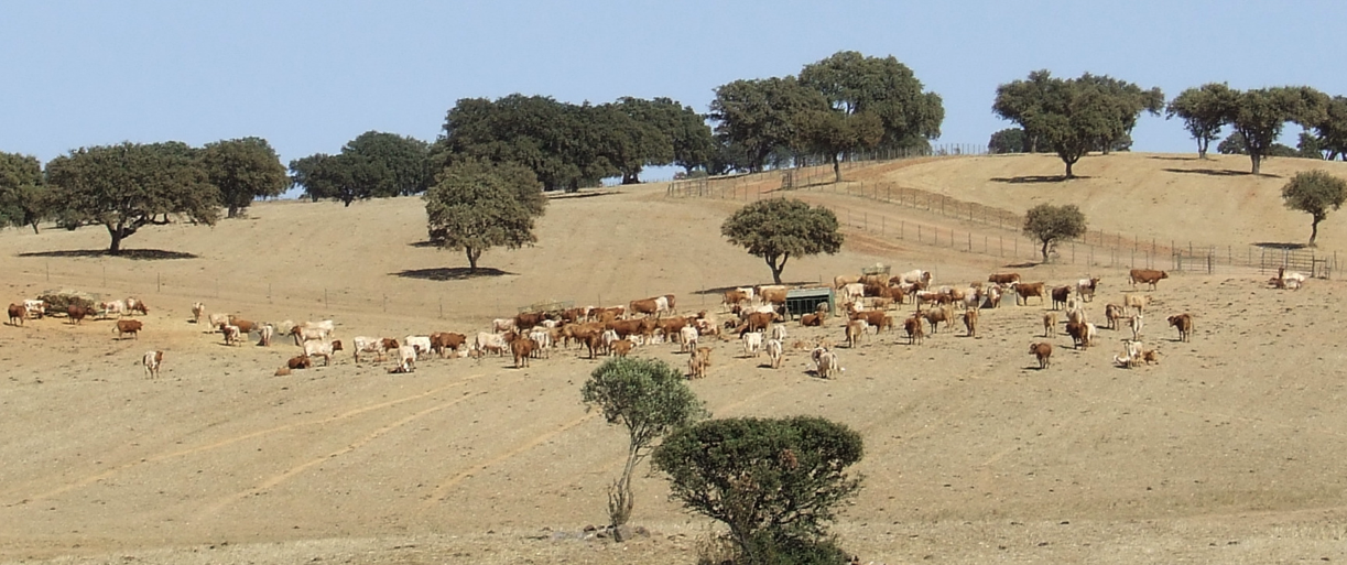 Cattle grazing